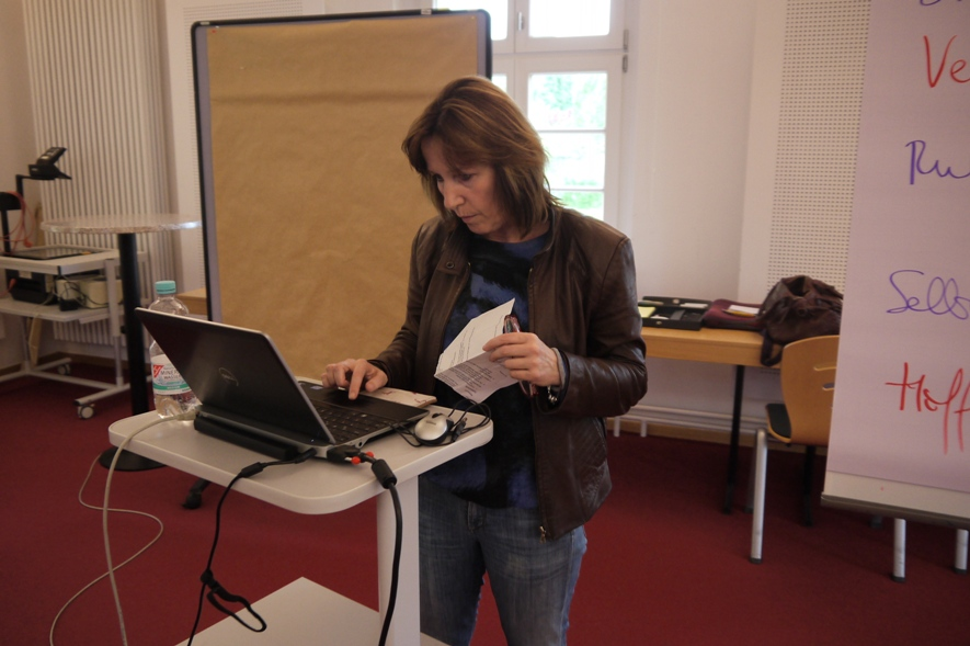 Barbara Juen teaching at LISUM (B.-B.)